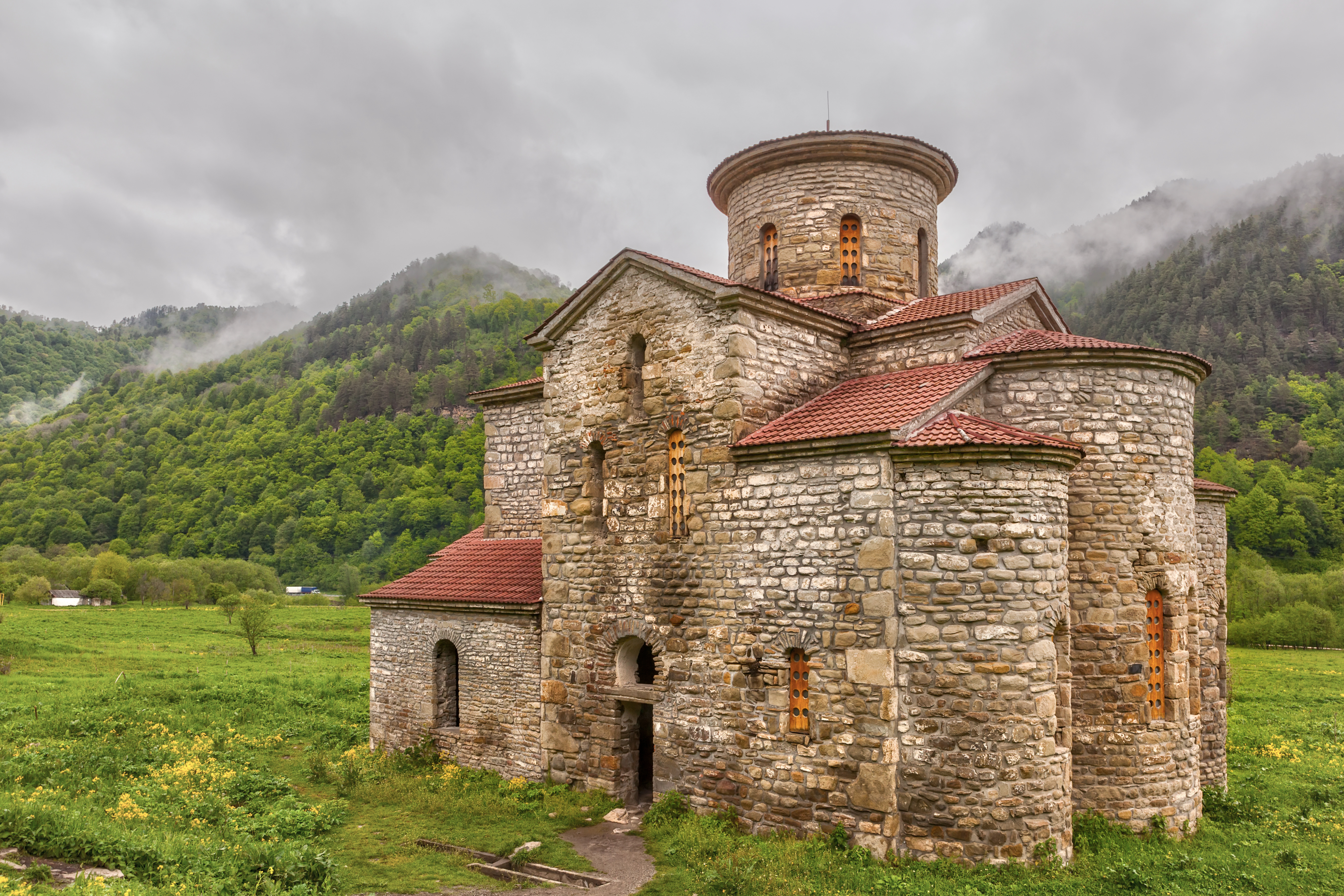 Central Church of Zelenchuksky Churches under heavy sky around the ruins of Nizhnearkhyzskoe gorodishche near Arkhyz, Karachay–Cherkessia, Russian Federation